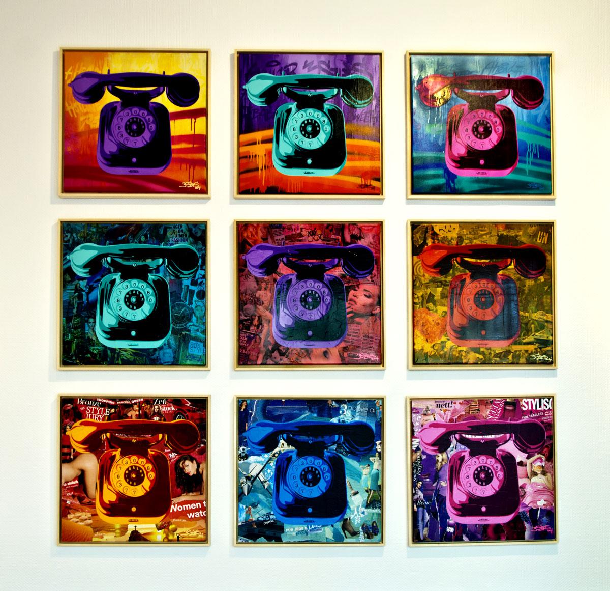 3Steps | Ahead! Show 2014 | Telephone Series